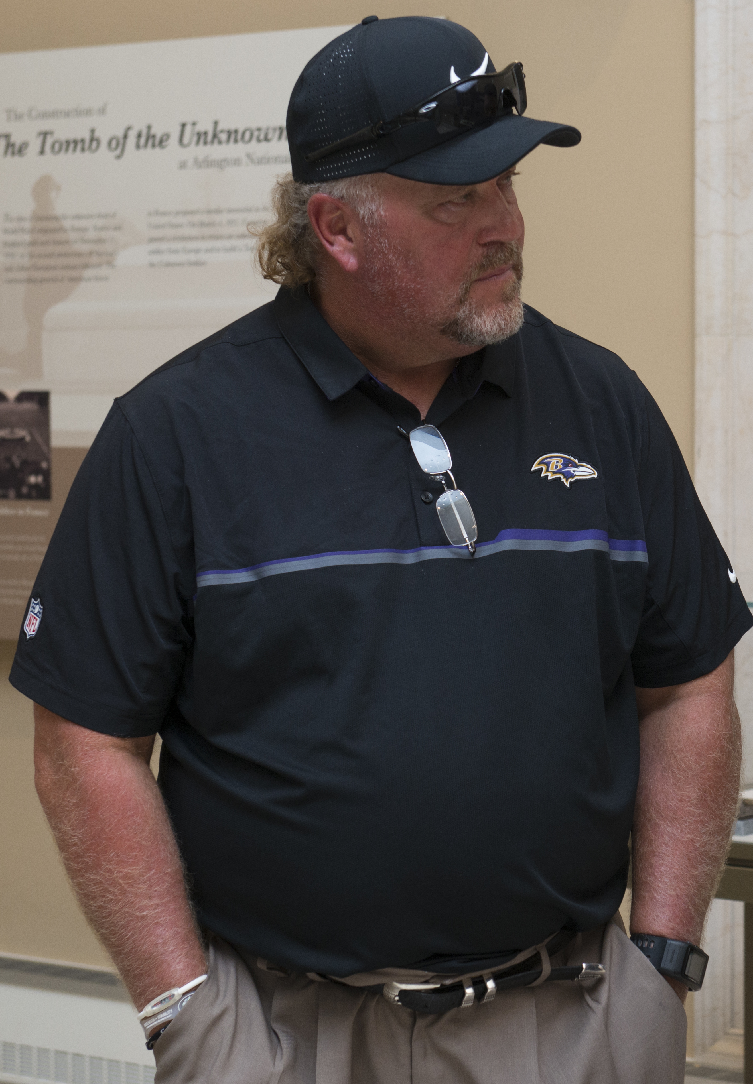 Don Martindale, linebackers coach, Baltimore Ravens; talks with Col. Jason Garkey, regimental commander, 3d U.S. Infantry Regiment (The Old Guard) in the Memorial Amphitheater Display Room of Arlington National Cemetery, Arlington, Va., Aug. 21, 2017. The Ravens visited the cemetery as part of the U.S. Army’s and the NFL’s community outreach program. (U.S. Army photo by Elizabeth Fraser / Arlington National Cemetery / released)